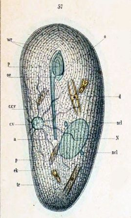 An image taken from Wladimir Schewiakoff, Beiträge zur Kenntniss der holotrichen Ciliaten, 1889